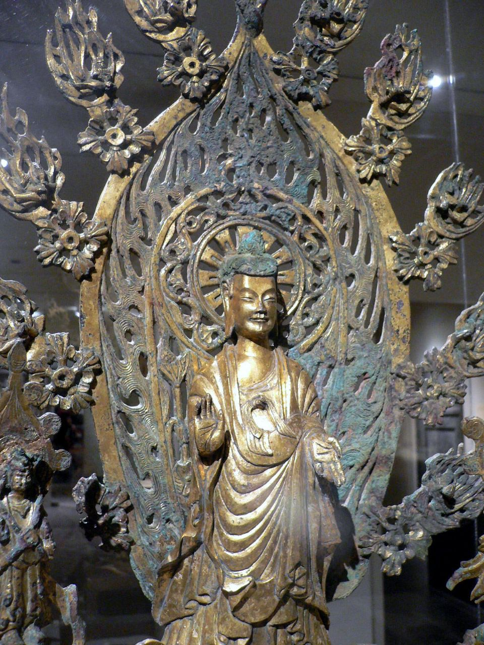 Altarpiece Dedicated to Buddha Maitreya, Northern Wei dynasty (386–534), dated 524. Gilt bronze; H. 30 1/4 in. (76.9 cm); W. 16 in. (40.6 cm); D. 9 3/4 in. (24.8 cm). Rogers Fund, 1938 (38.158.1a–n).